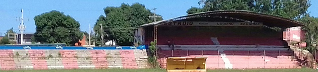 Stadium of Colegiales